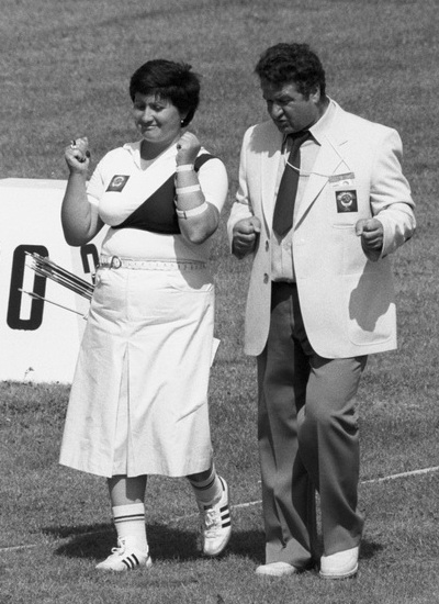 “Gold winner at 22nd Olympics Ketevan Losaberidze”. Ketevan Losaberidze, a Soviet athlete from Georgia, gold winner at the 1980 Olympics women's individual archery event, with her coach Shalva Dzhashiashvili. The 22nd Olympics. Krylatskoye Sports Complex Archery Field.